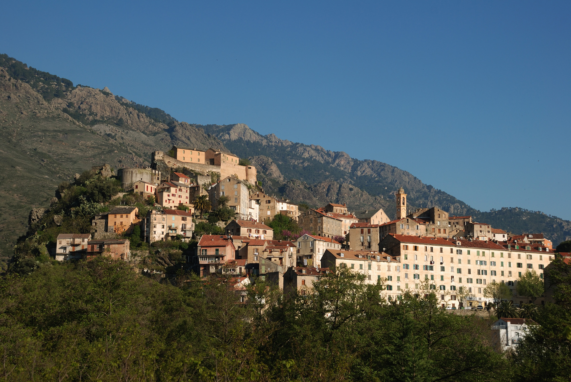 View on Corte, Corsica.